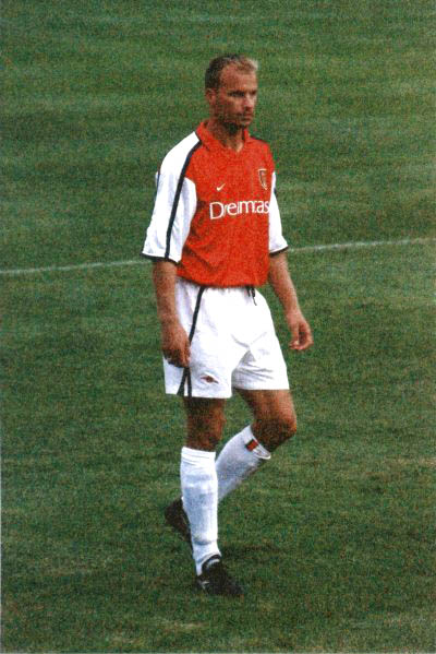 Dennis Bergkamp is without a doubt an Arsenal legend through and through.